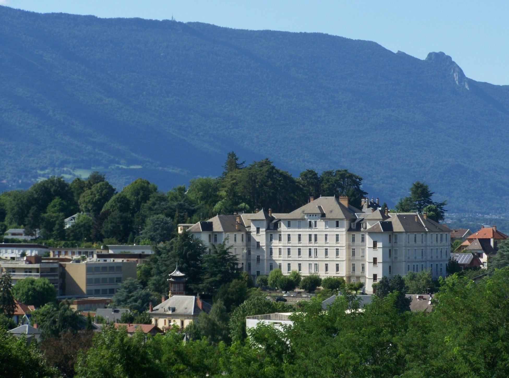 Sight of Pavillon Sainte-Hélène building, part of city of Chambéry hospital, in Savoie, France.